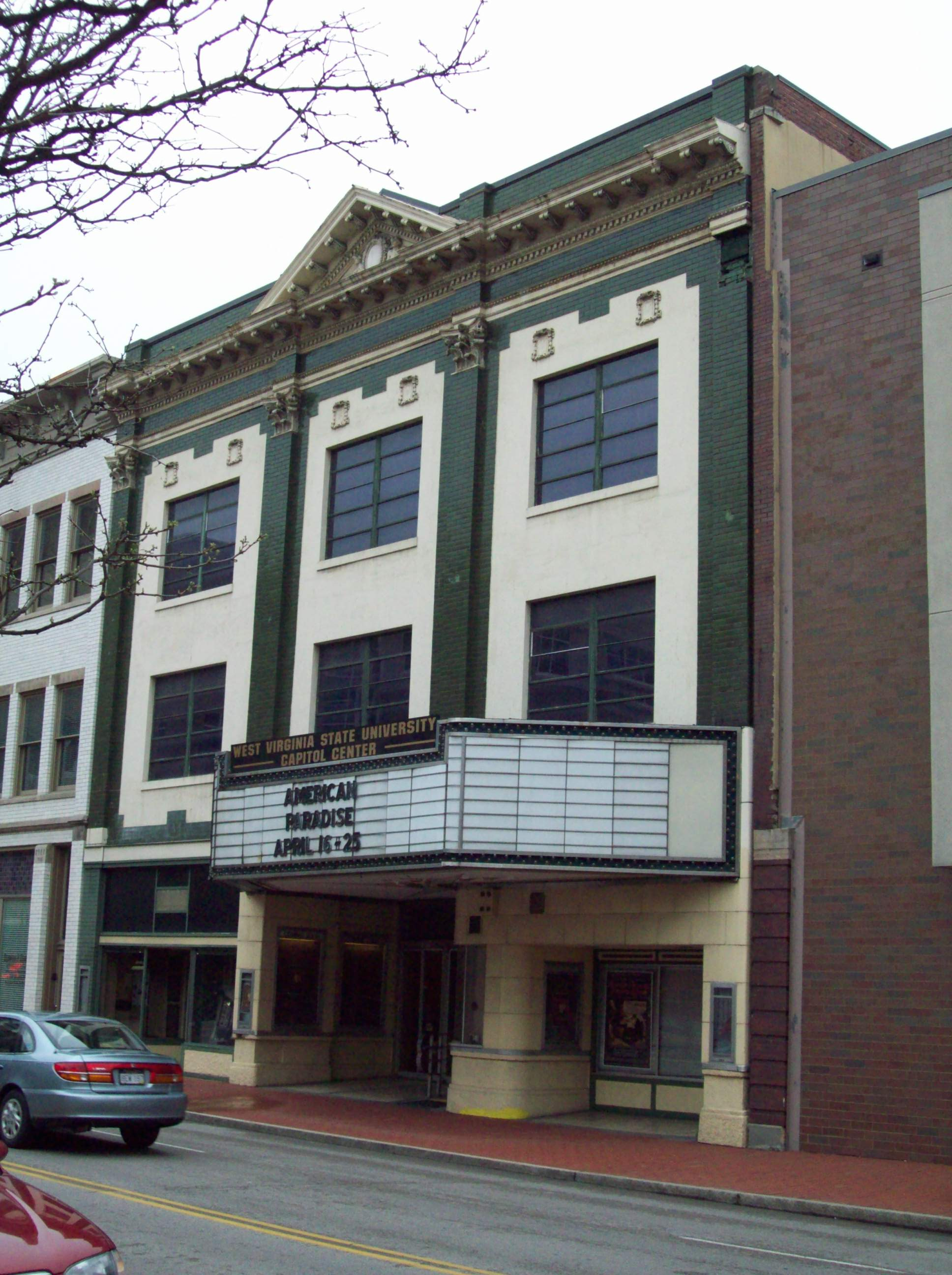 Plaza Theatre, located in Charleston, West Virginia. On the National Register of Historic Places in Kanawha County, West Virginia. Image: April 2009